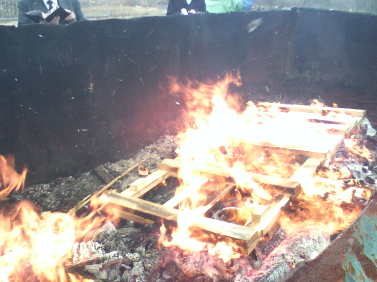 Controlled Burning of Chometz